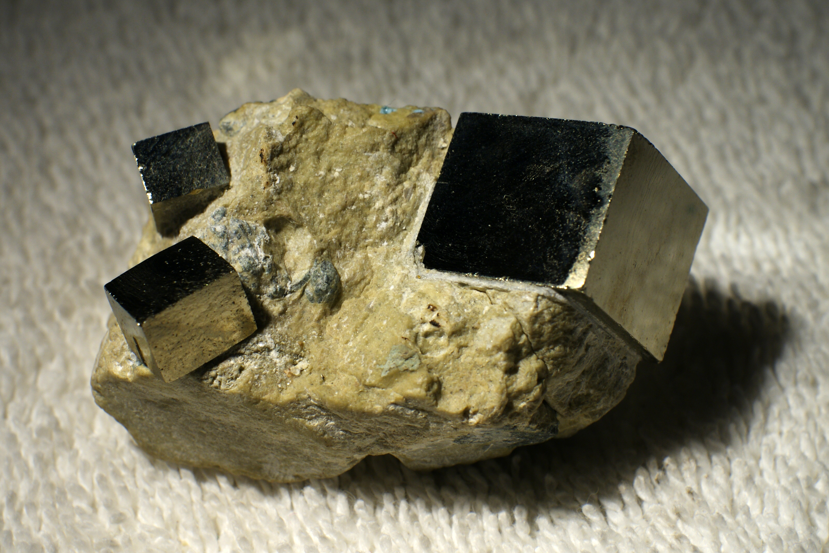 Pyrite cubes